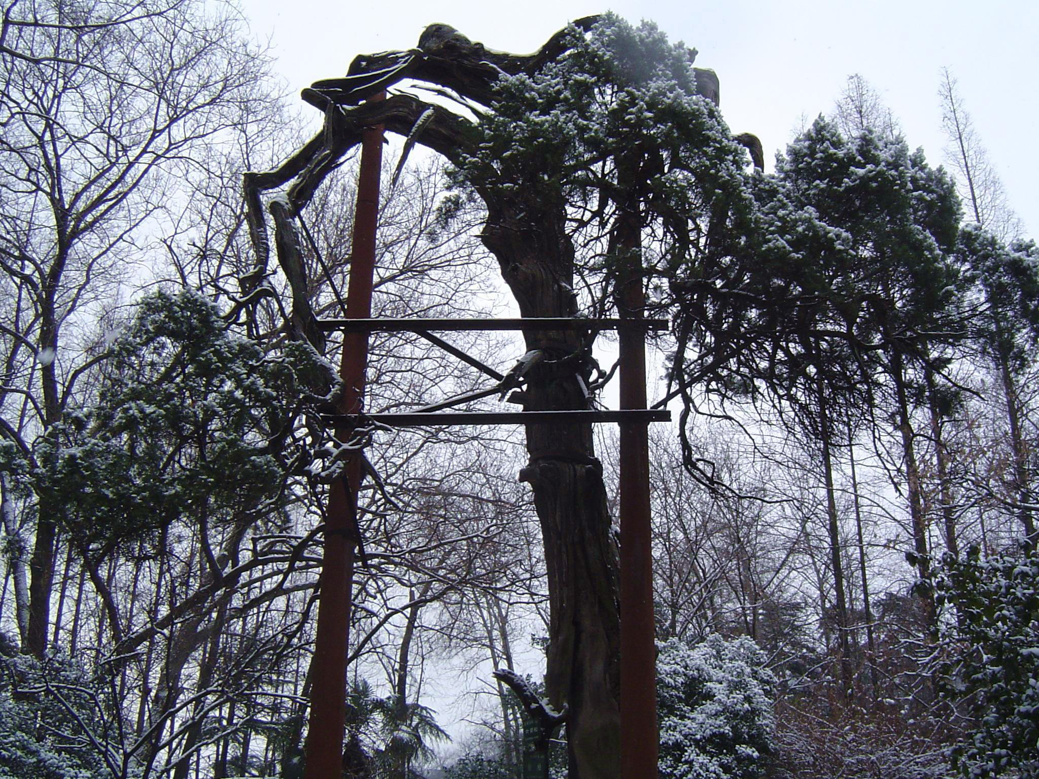 六朝松, a Chinese juniper of the Six Dynasities in Nanjing